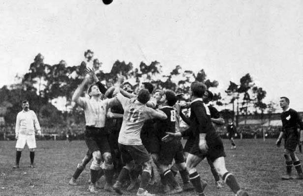 New Zealand playing Australia during the Wallabies tour.